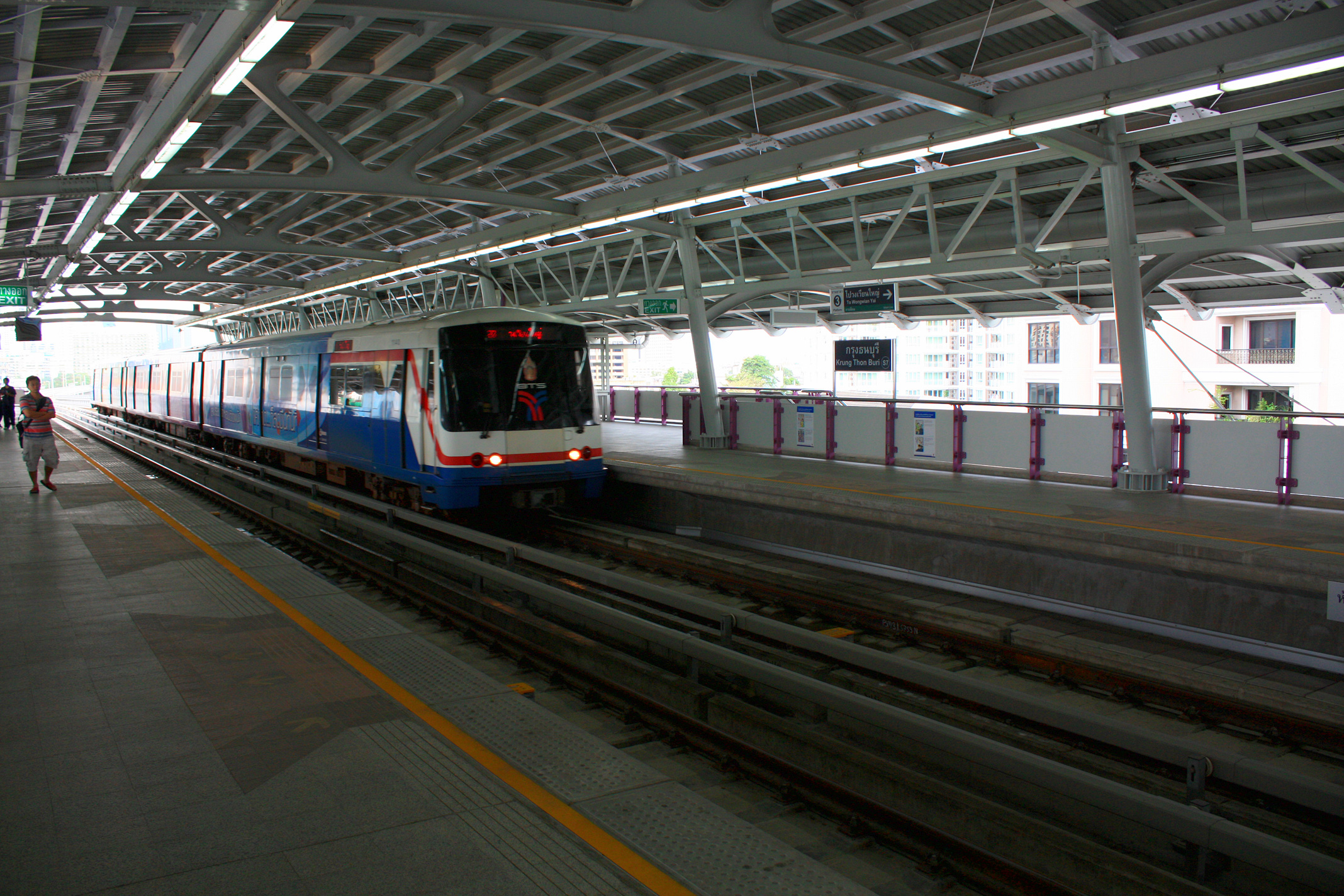 BTS Krung Thon Buri Station, Bangkok, Thailand.